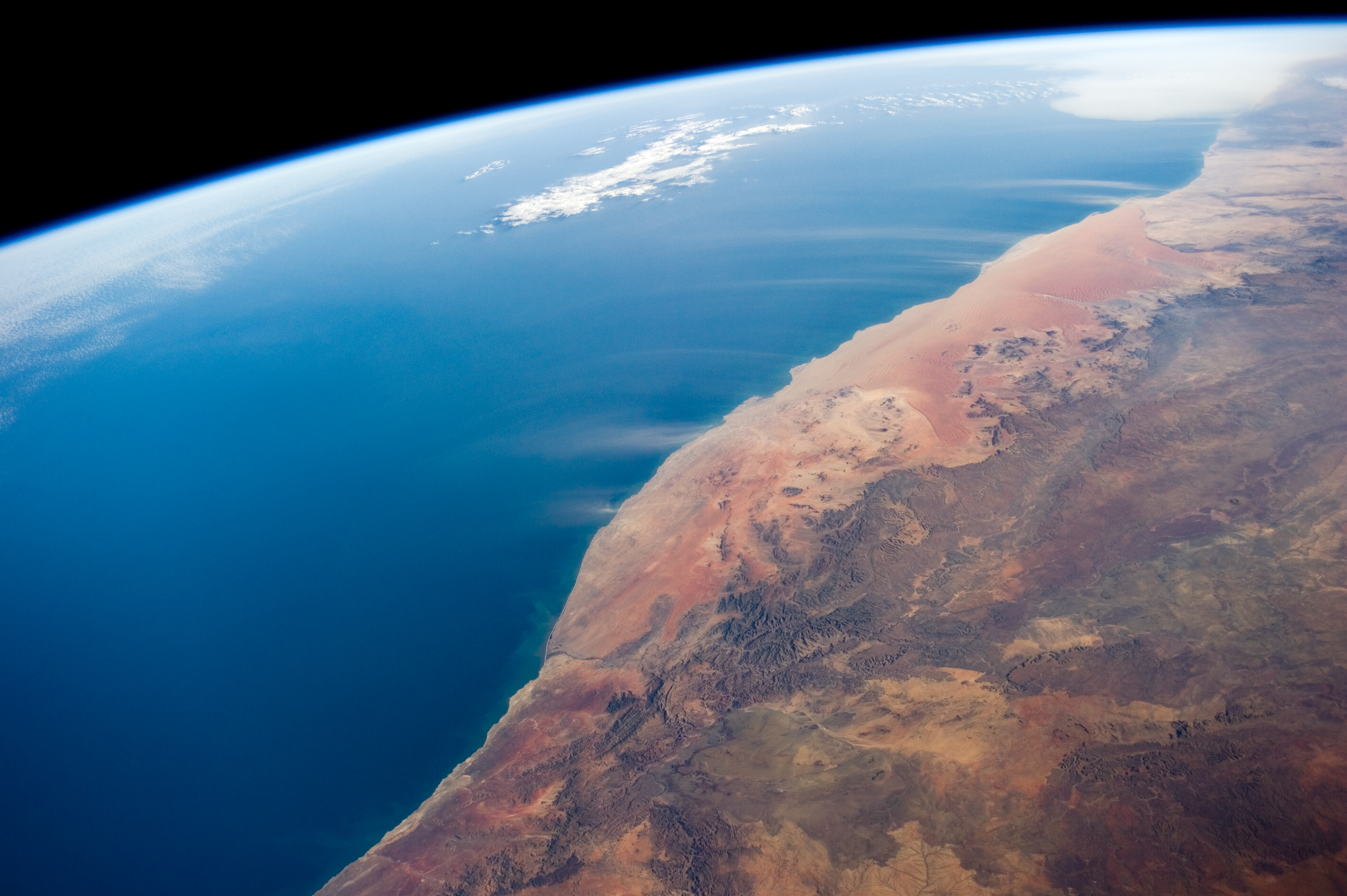 Dust plumes and the Namib Desert coast are featured in this image photographed by an Expedition 40 crew member on the International Space Station. Strong, hot winds known as "berg" (mountain) winds are lofting plumes of dust directly out into the Atlantic Ocean in this panoramic image. The southern African equivalent of Santa Ana winds in California, berg winds blow on a few occasions in fall and winter, off all coasts of southern Africa. Other images from the space station have captured these dust plumes. Namibia's great Sand Sea appears here as a reddish zone along part of the coast (center). The Sand Sea is more than 350 kilometers long, giving a sense of the length of the visible dust plumes. A light-toned sediment plume enters the sea at the mouth of the Orange River (lower left), southern Africa's largest river.